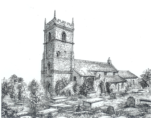 St Peter's Church, Prestbury before the restoration designed by Sir George Gilbert Scott. Note the external staircase leading to a gallery at the western end of the church.